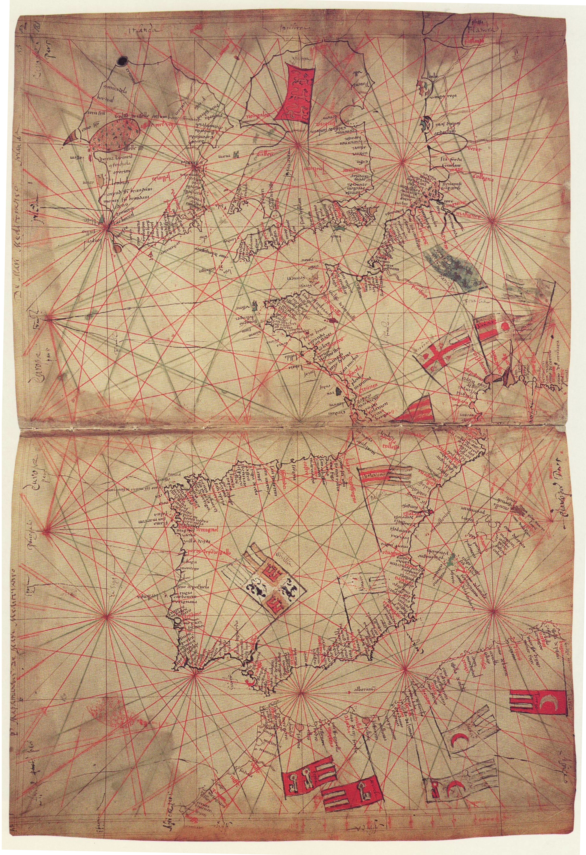 Map of the Atlantic, including Spain and the British Isles, comprising the first sheet of the atlas attributed to Genoese cartographer Pietro Vesconte, and tentatively dated 1325. Contained in a manuscript of Marino Sanuto Liber Secretorum Fidelium Crucis (c.1325) held by the British Library in London, UK.